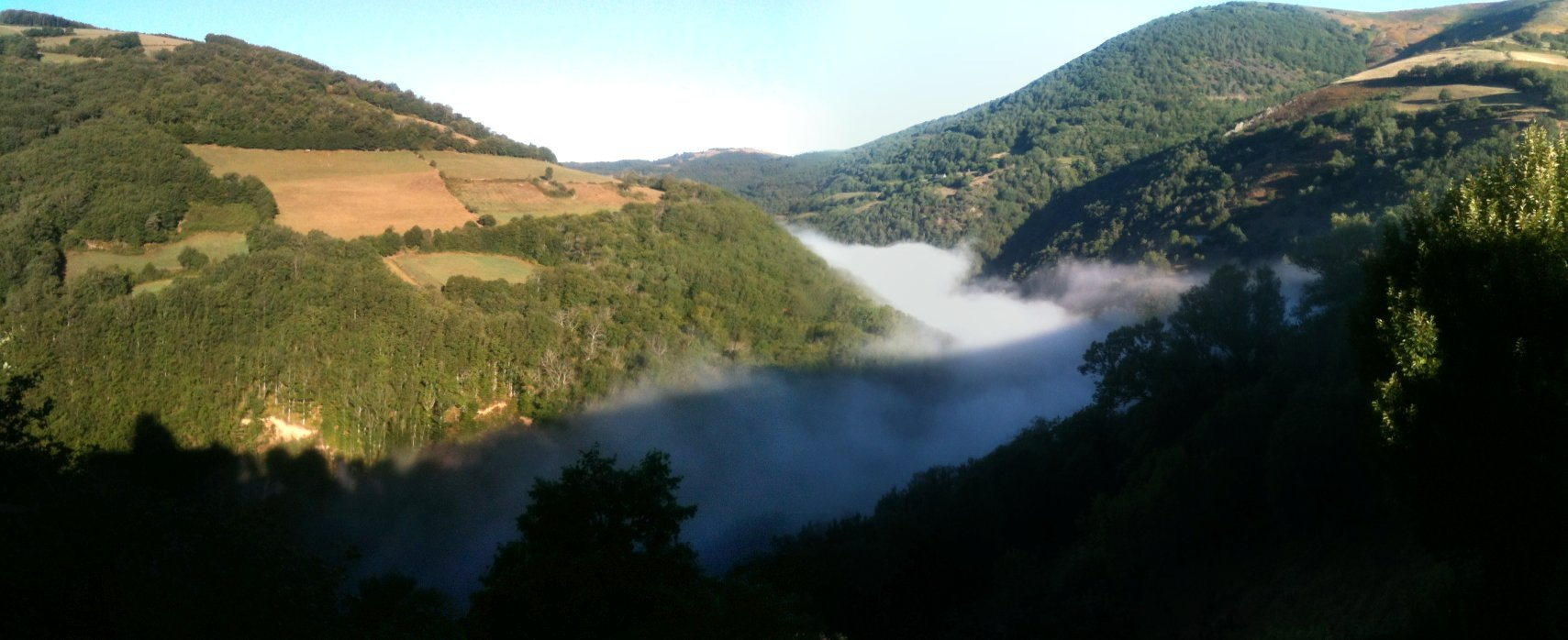 Mist in the valley. Pomayrols Aveyron France